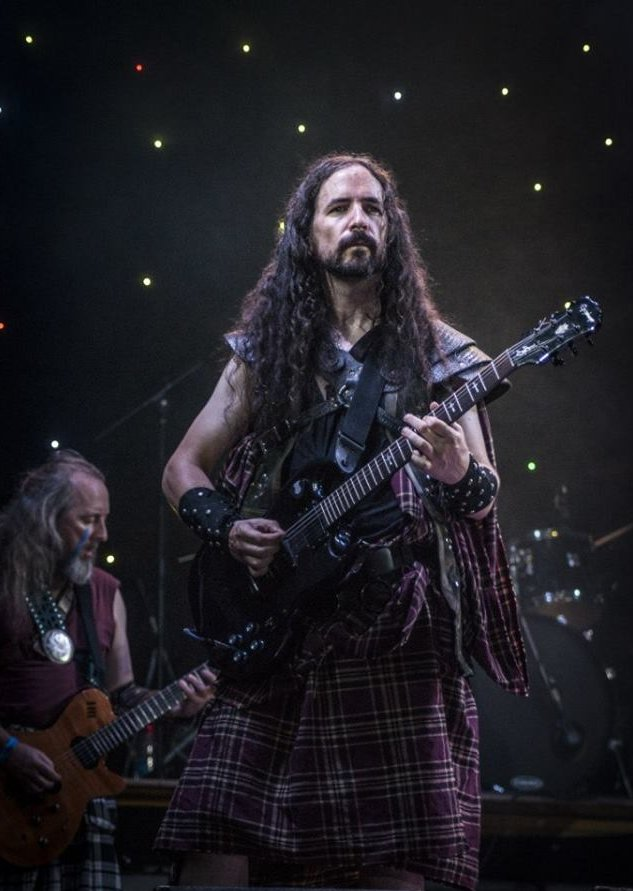 Keith on stage at Rock for Roots